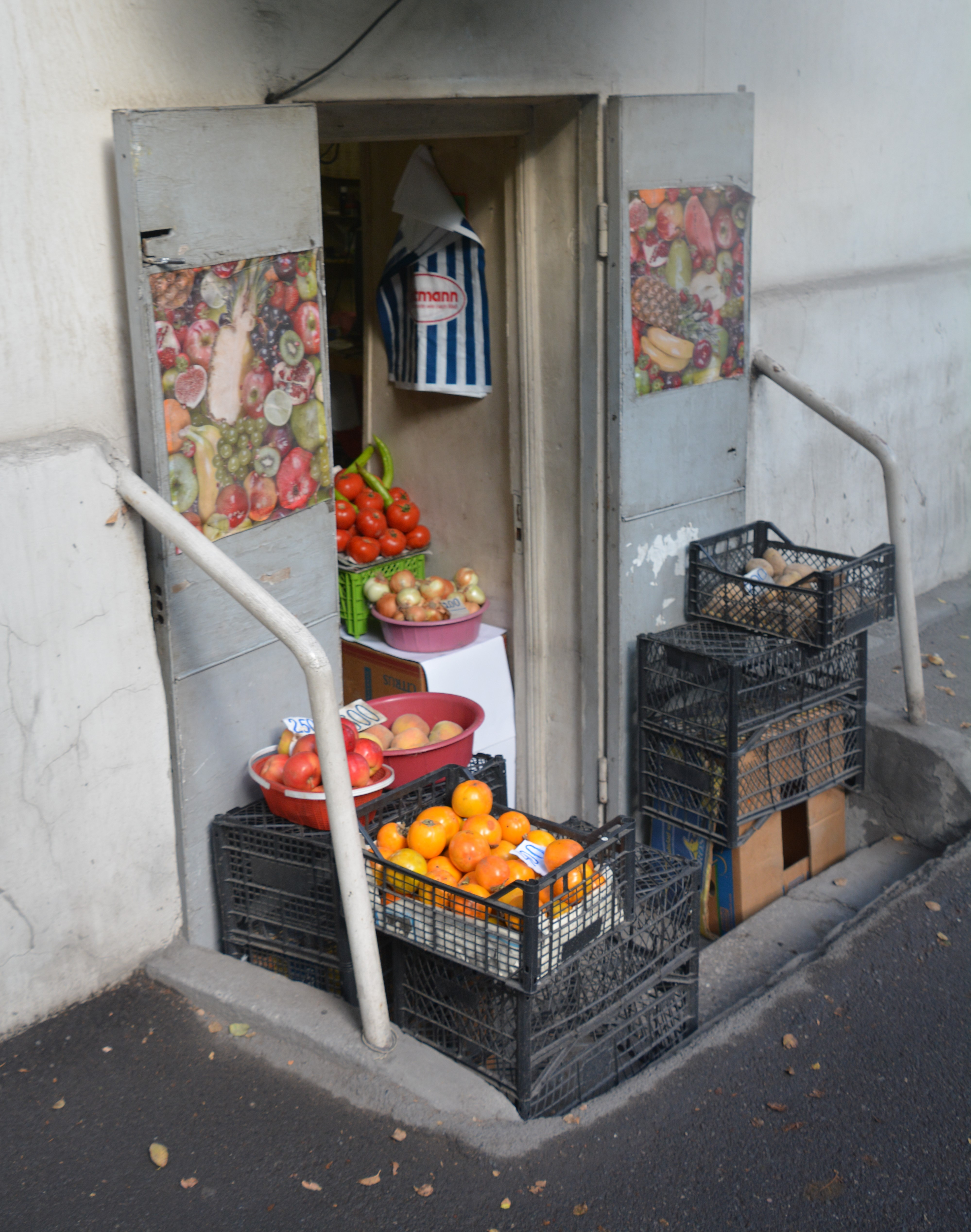 Frukt- och grönsaksbutik i Jerevan